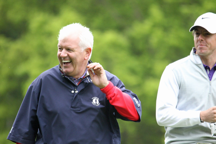 Rory McIlroy with father Gene McIlroy during a practice day for the 2013 BMW PGA Championship at Wentworth Club.